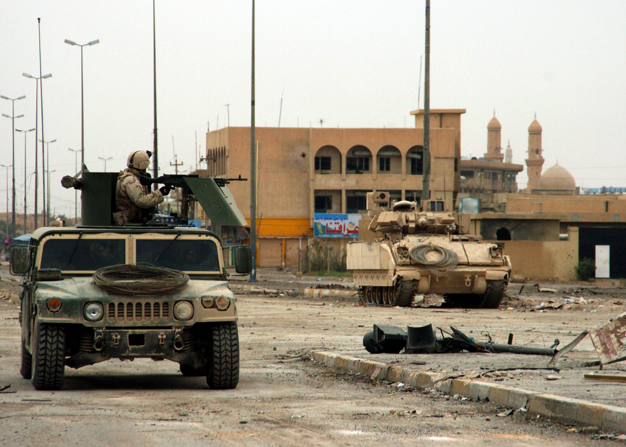 Fallujah, Iraq (Nov. 17, 2004) - Construction Electrician 3rd Class Joe Tank mans a turret mounted M-240B machine gun atop a High Mobility Multipurpose Wheeled Vehicle (HMMWV) to provide security while Seabees assigned to Naval Mobile Construction Battalion Four (NMCB-4) clear debris from the streets of Fallujah, Iraq. NMCB-4 is homeported in Port Hueneme, California and is currently deployed in support of Operation Al Fajr (New Dawn). Operation Al Fajr is an offensive operation to eradicate enemy forces within the city of Fallujah in support of continuing security and stabilization operations in the Al Anbar province of Iraq. U.S. Navy photo by Photographer's Mate 2nd Class Philip Forrest (RELEASED)